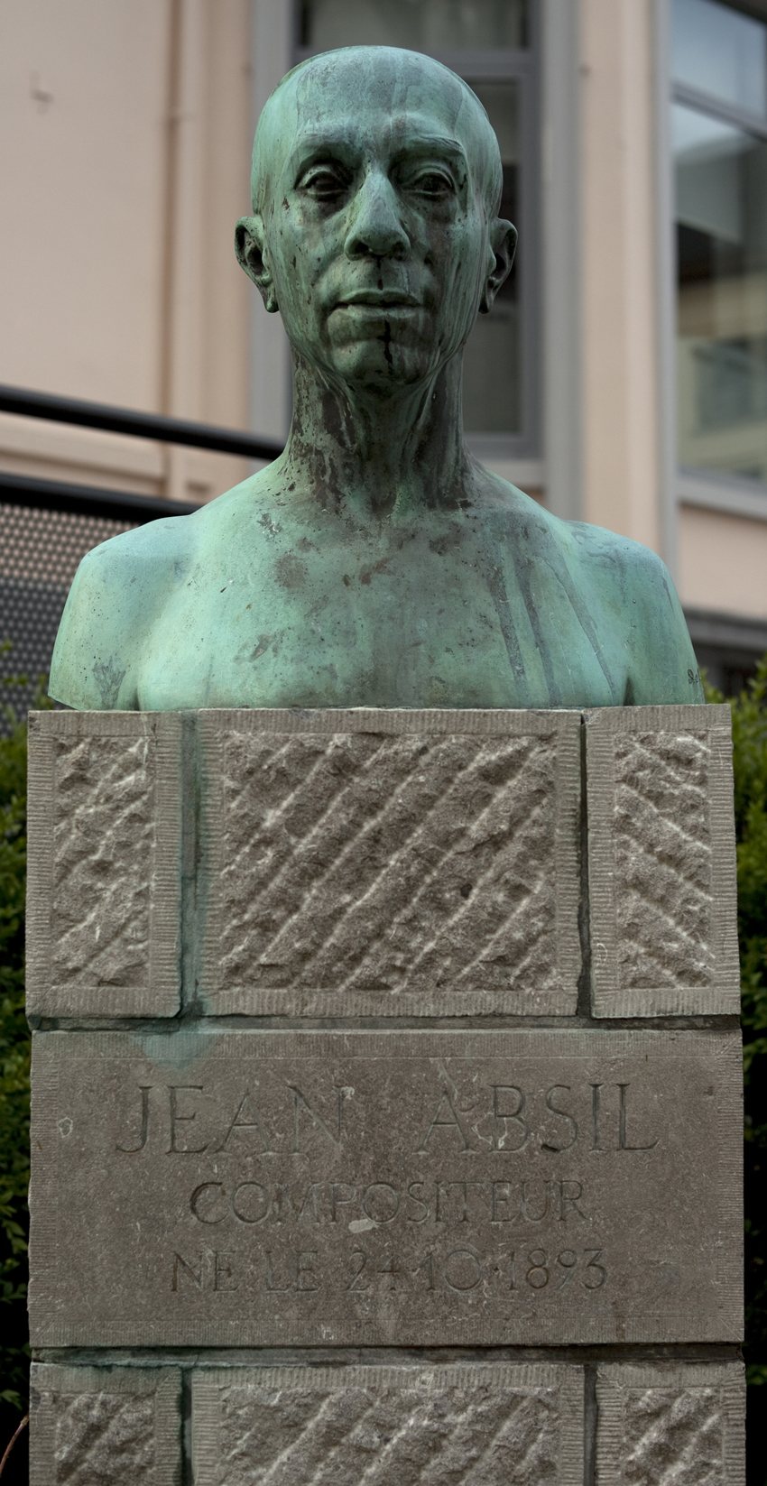 Jean Absil (October 23, 1893 – February 2, 1974) was a Belgian modernist music composer, organist, and professor at the Brussels Conservatory